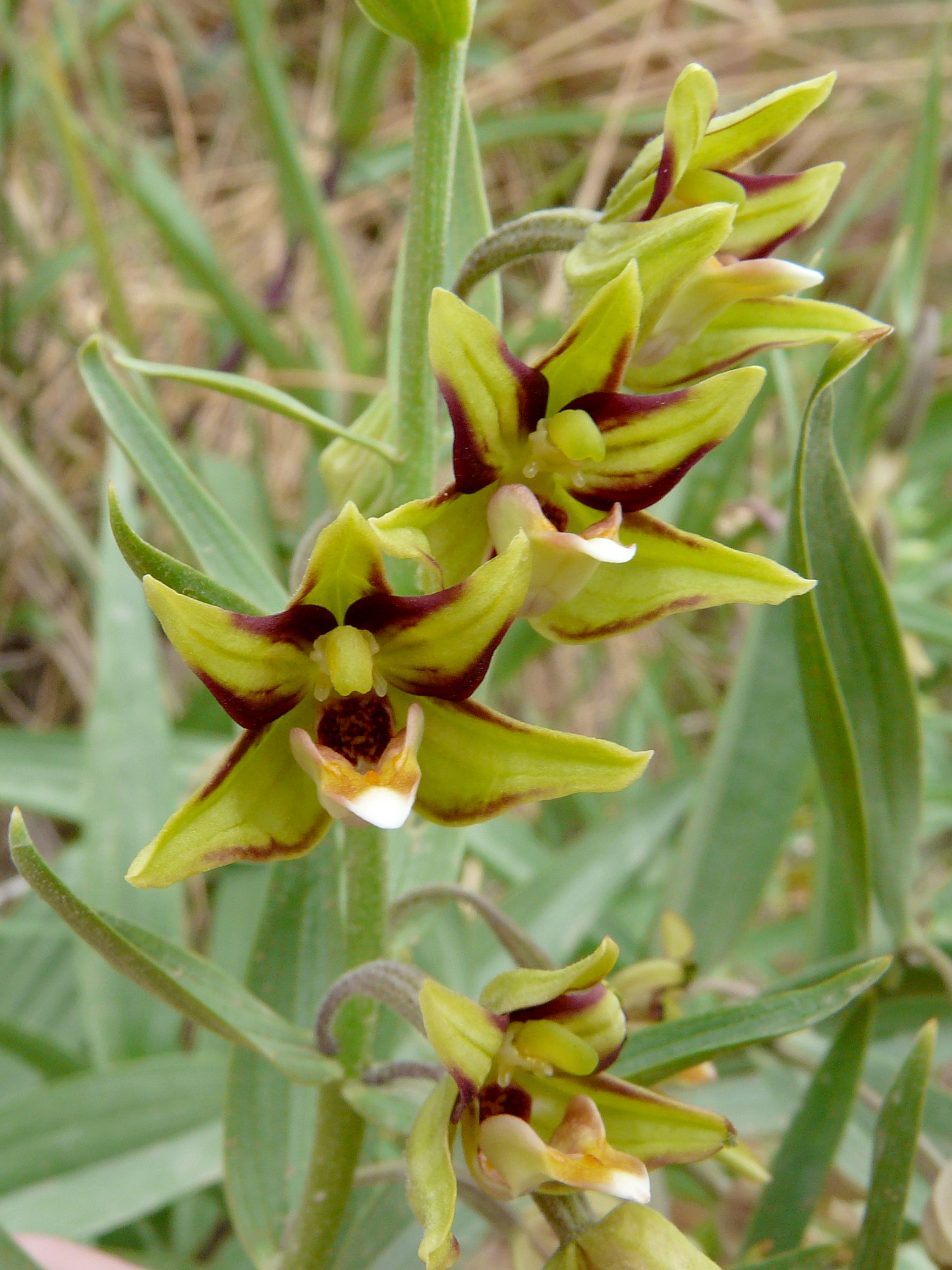 Epipactis veratrifolia